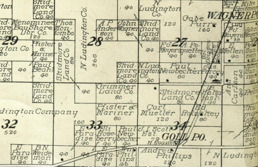 Map detail of Goll, Wisconsin. From Standard Atlas of Marinette County Wisconsin Including a Plat Book of the Villages, Cities and Townships of the County. 1912. Chicago: Geo. A. Ogle & Co.